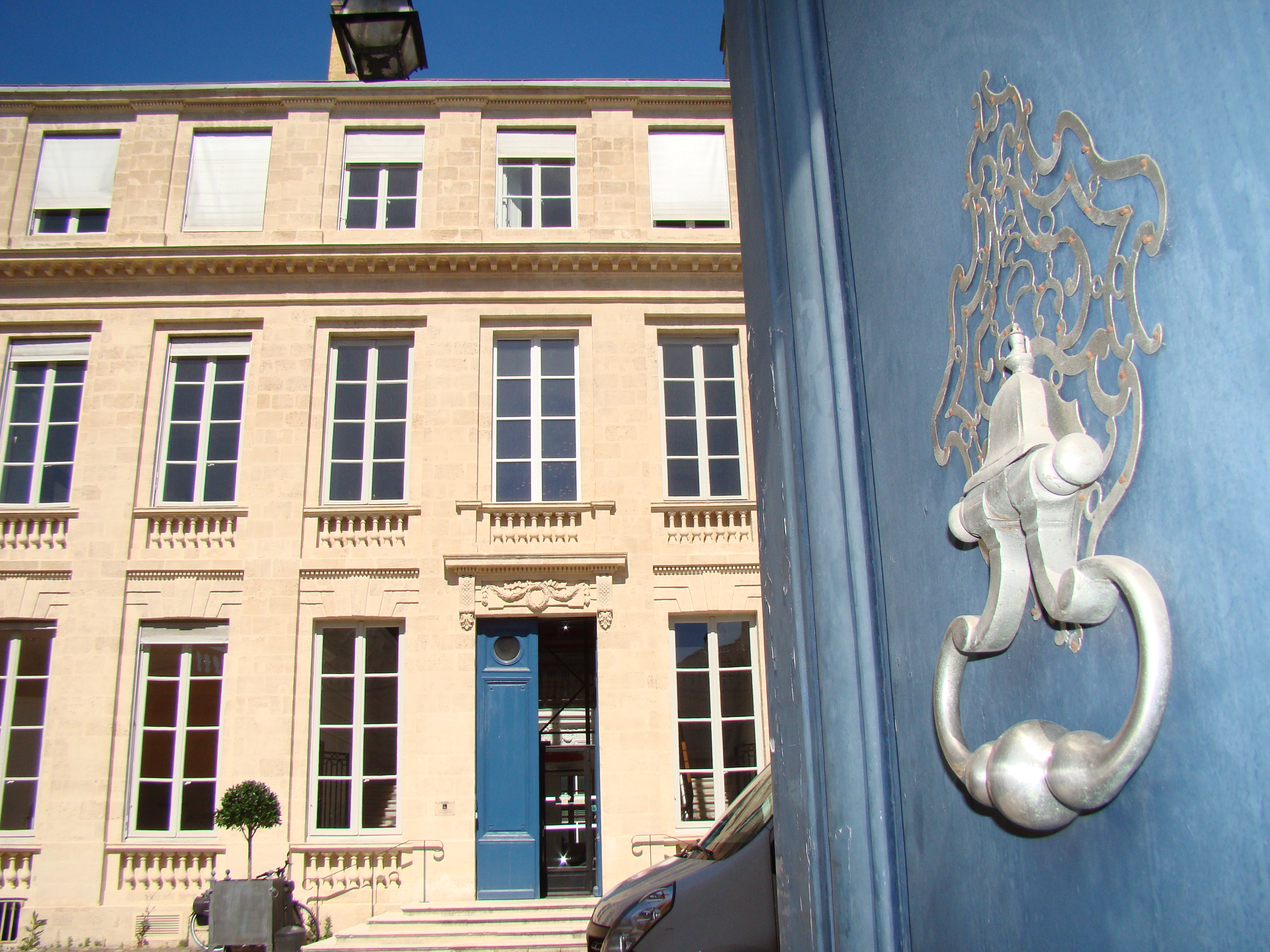 Hôtel Nairac in Bordeaux.